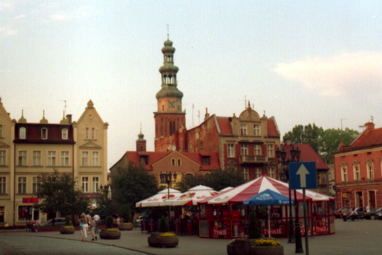 Chełmża, market- place, 2007